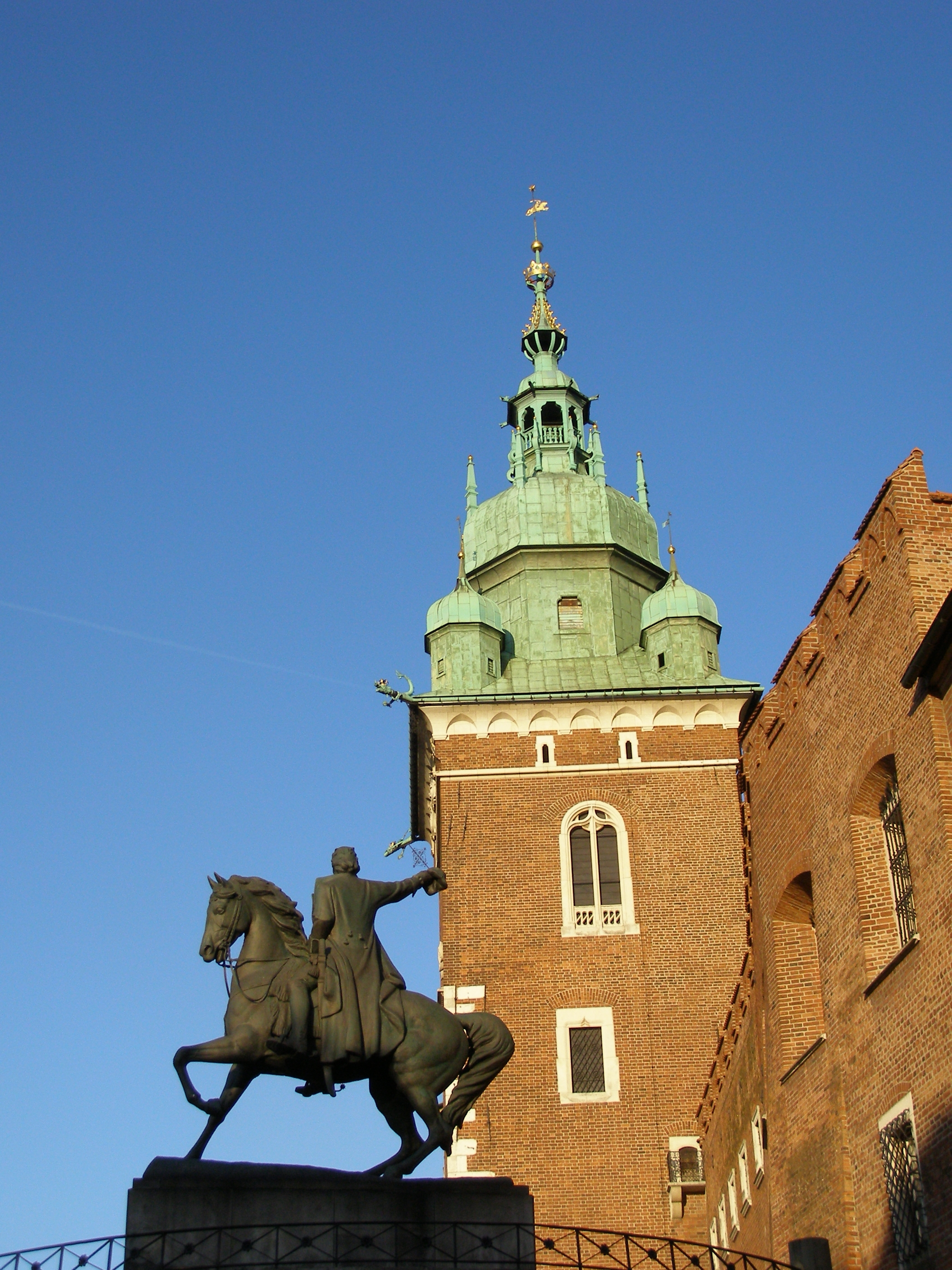 Kraków - Sigismund's Tower of the Wawel Cathedral and the monument of Tadeusz Kościuszko